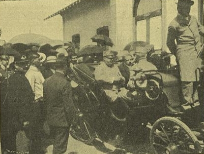 Inauguration ceremony of the Pedras Salgadas station, on the Corgo Railway, in Portugal, on the 15th of July 1907. The photograph shows the moment when King D. Carlos left the station to go to the Pedras Salgadas spa. This image was originally published in the Occidente magazine No. 1029, of the 30th July 1907, and scanned by the Hemeroteca Municipal de Lisboa.